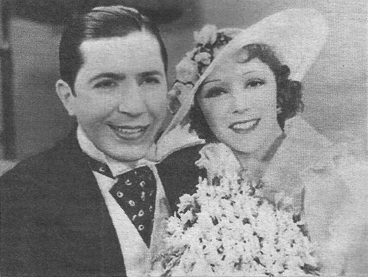 Argentine singer Carlos Gardel in a scene from the film El Día que me Quieras, with co-starrer actress Rosita Moreno.